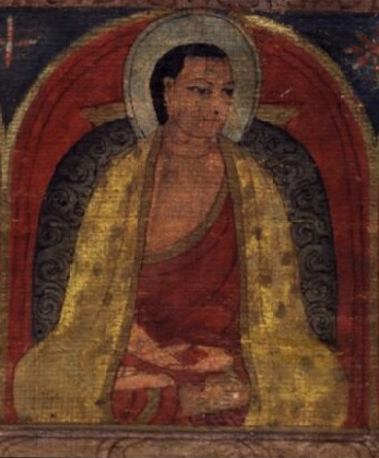 Lhodrak Gyelse Zangpo, 14th Century Tibetan Kadam Monk